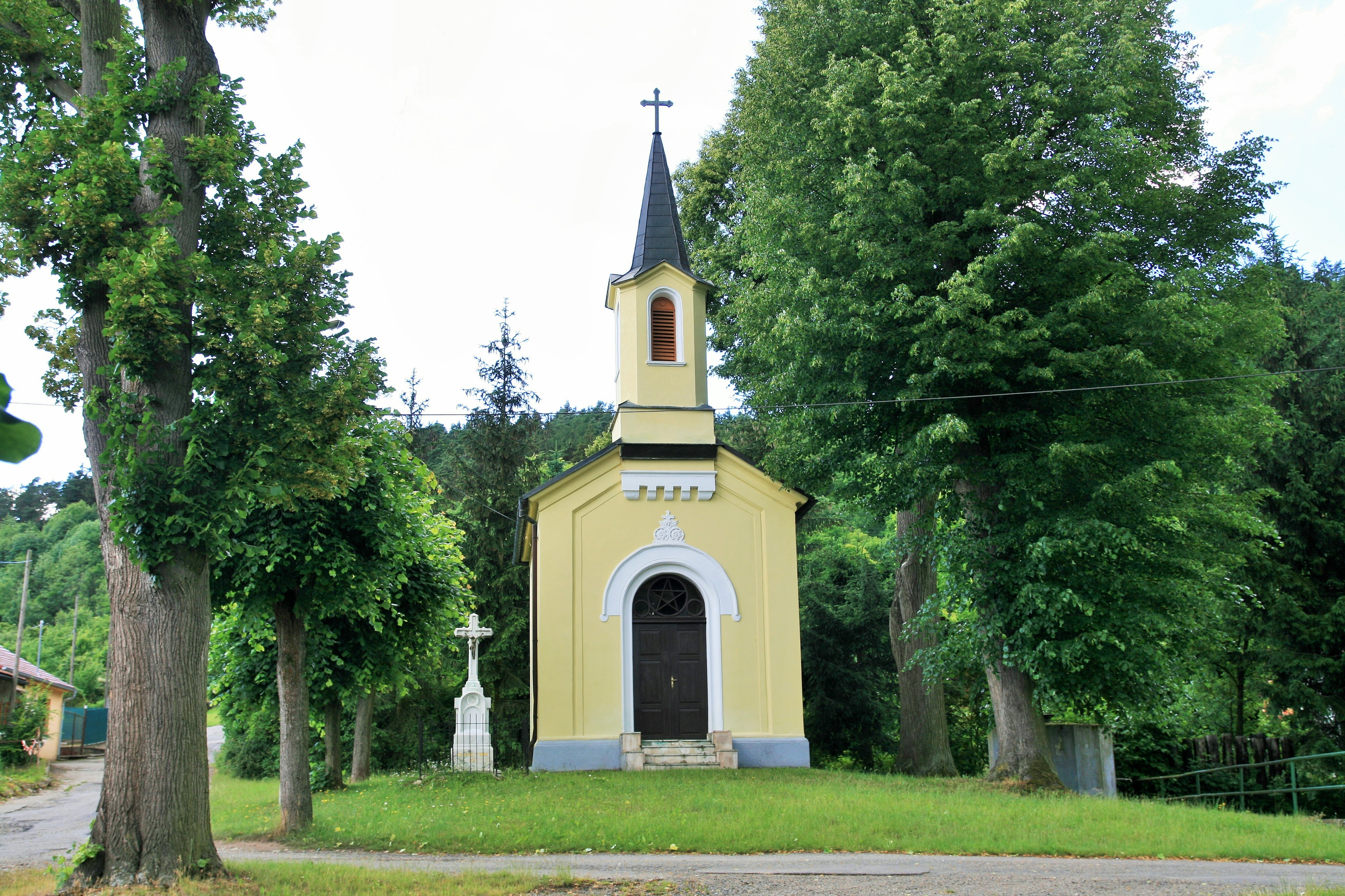 Žerůtky, Blansko District, Czech Republic. Our Lady of the Snow chapel at the village green.